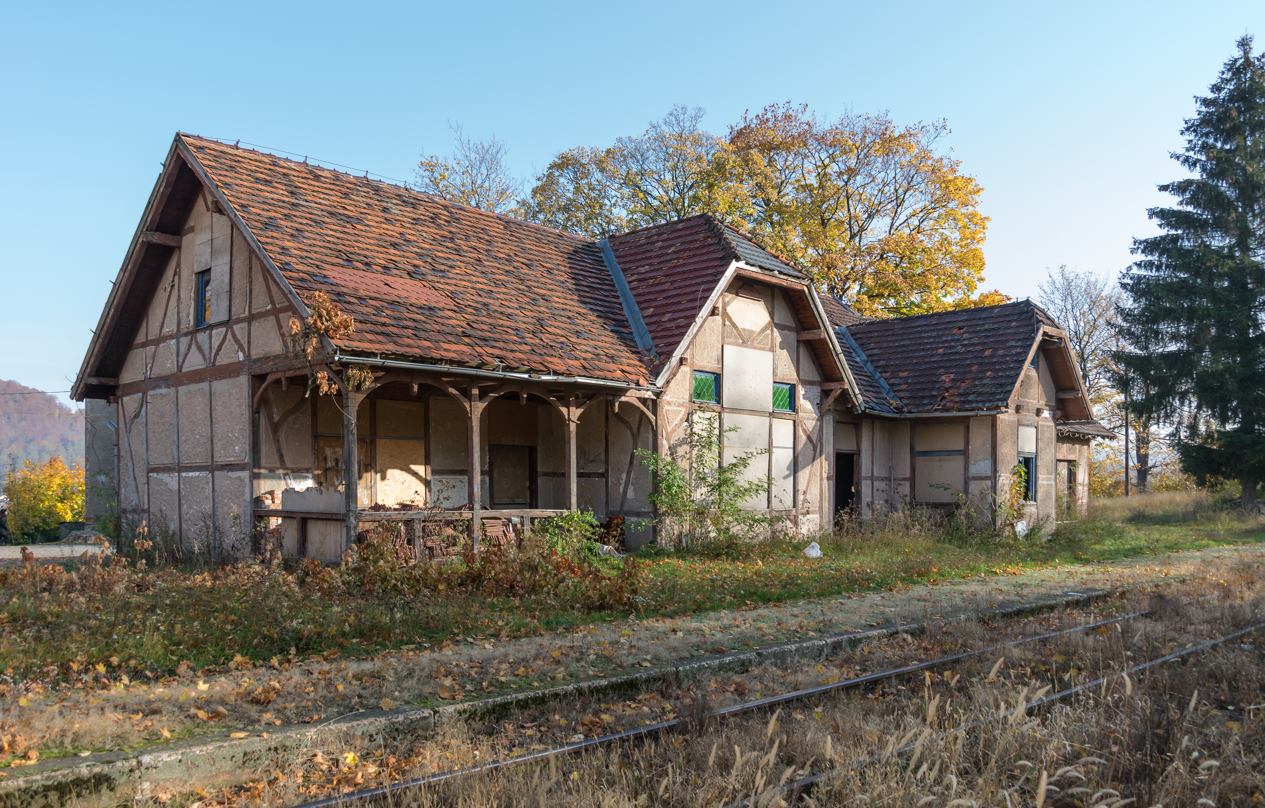 Train station in Ołdrzychowice Kłodzkie